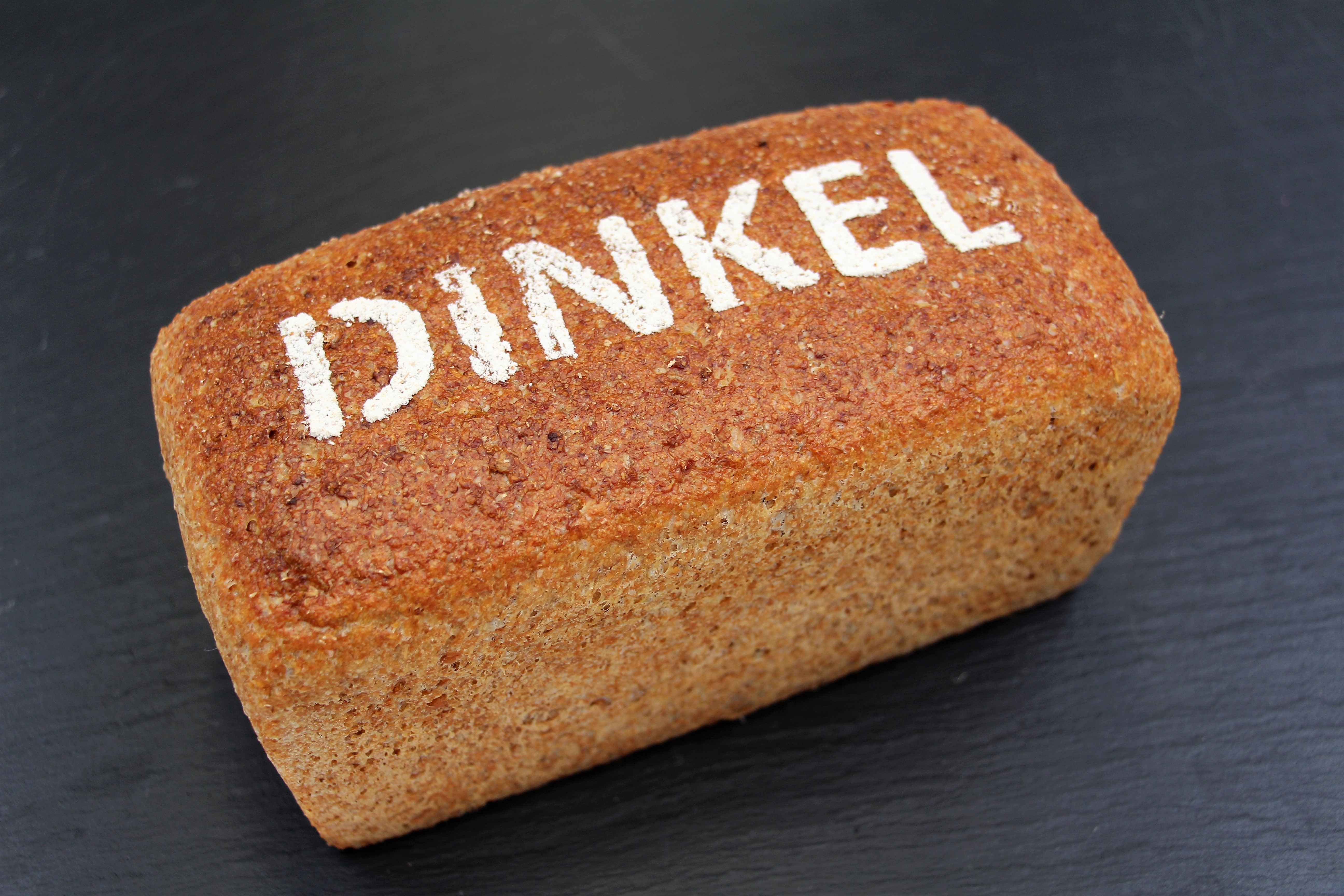 Dinkel-Vollkornbrot (Spelt Whole Grain Bread from Germany)